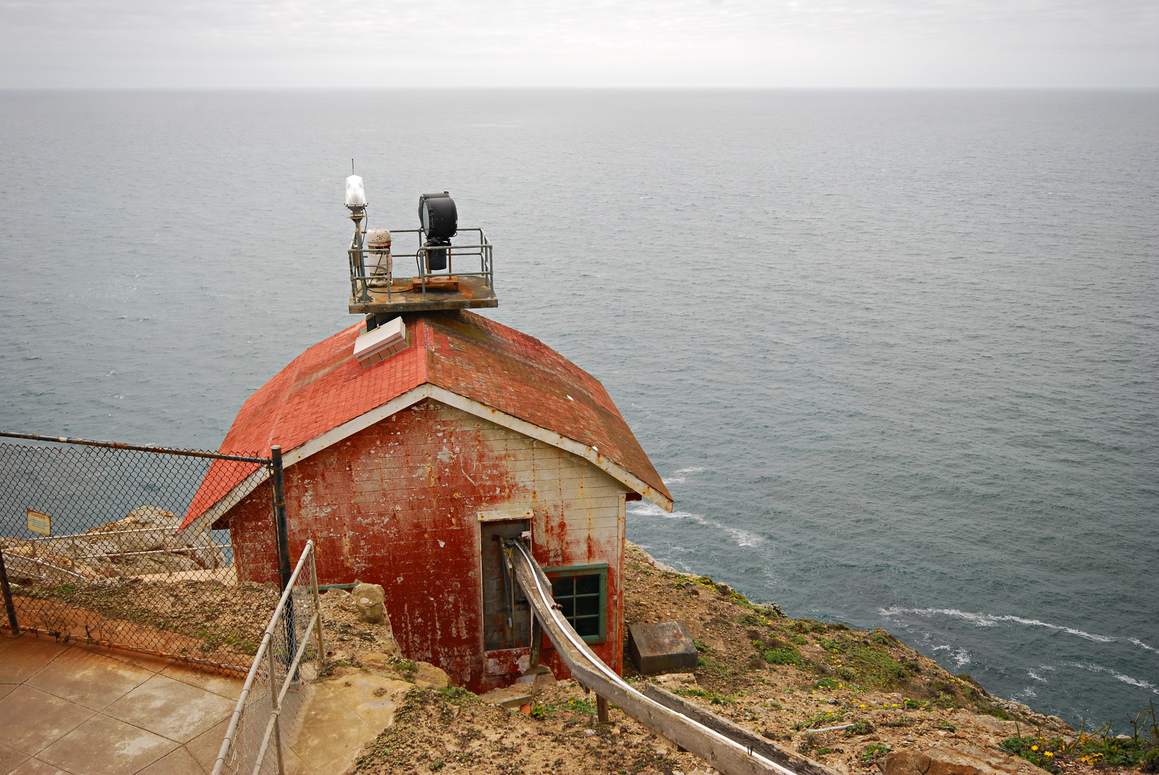 Point Reyes Lighthouse. This is the building that is actually making the foghorn noises and operating an automated light. It's cheaper to operate than the lighthouse.